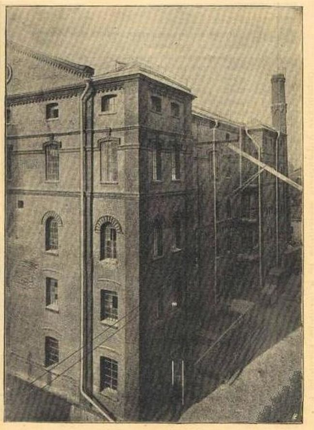 Suprunov's mill in Rostov-on-Don. Approx. 1908